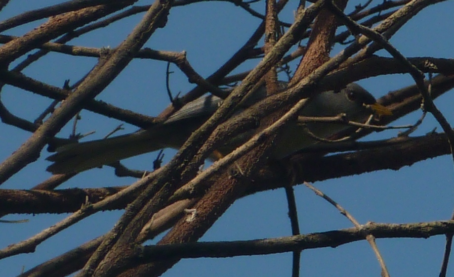 Slender-billed Finch (Xenospingus concolor)